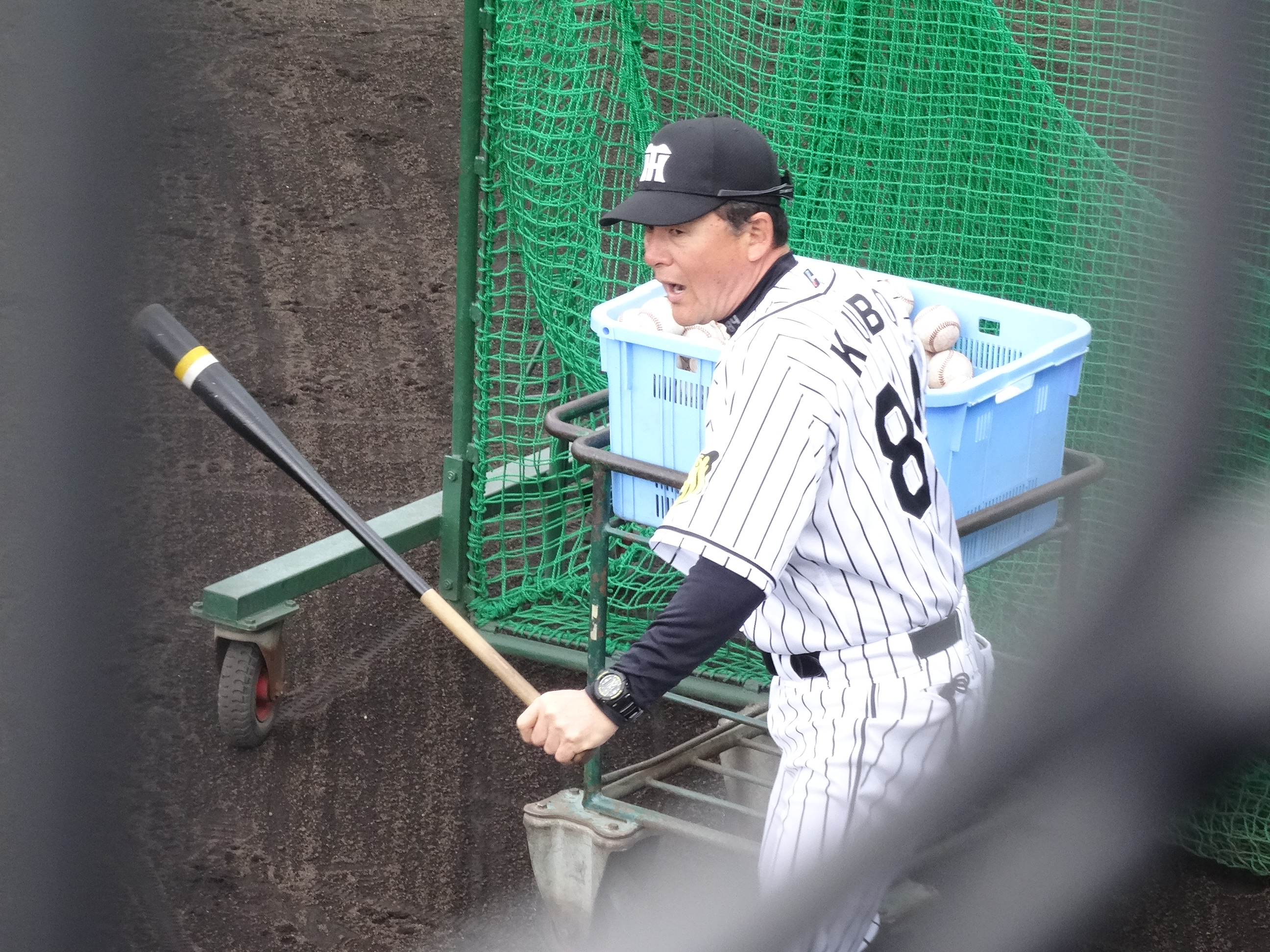 Yasuo Kubo, coach of the Hanshin Tigers, at Hanshin Naruohama Baseball Ground